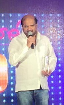 Vidyasagar at Anarkali 100 days celebration.